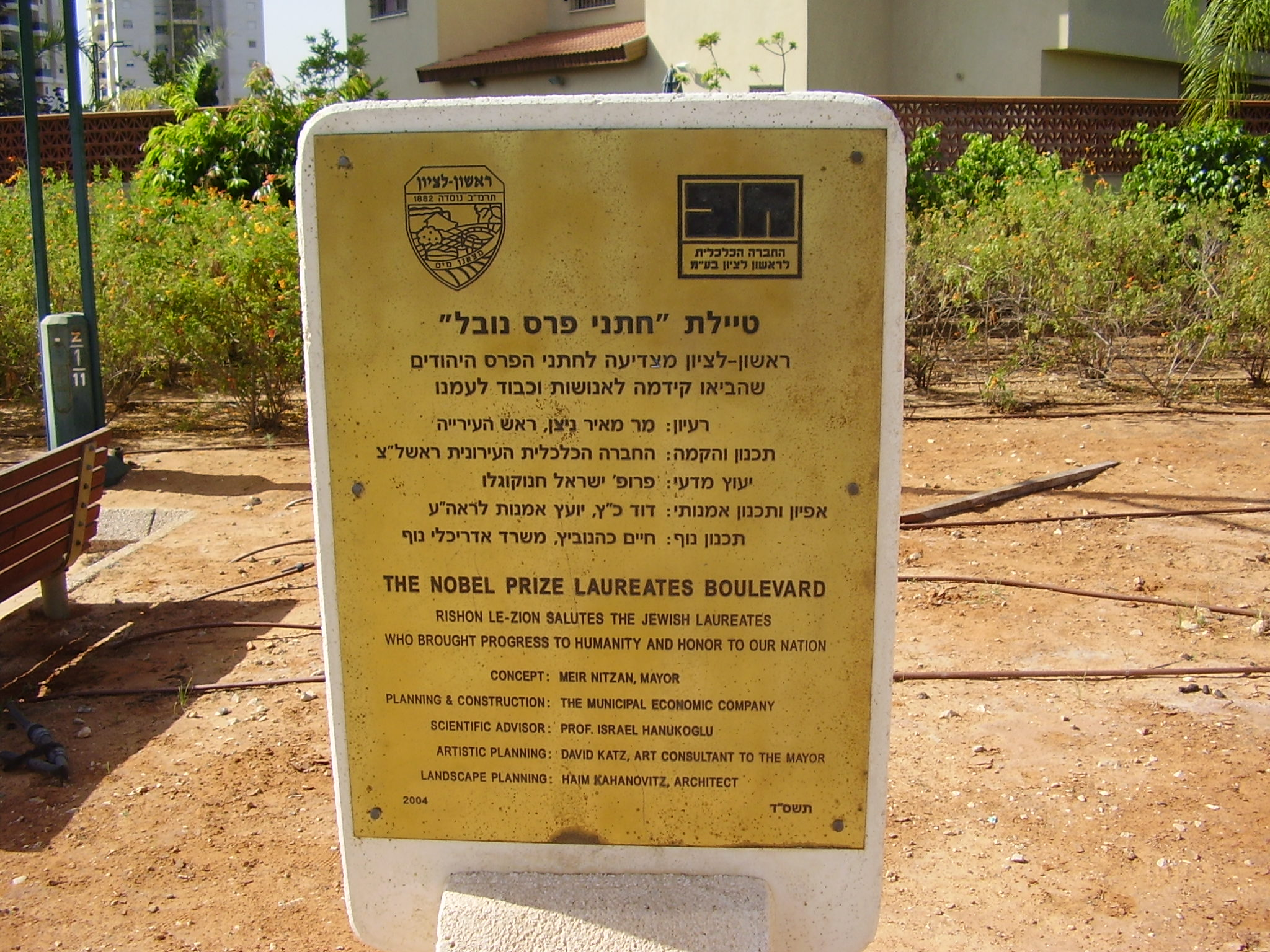 jewish nobel laureates promenade in rishon lezion